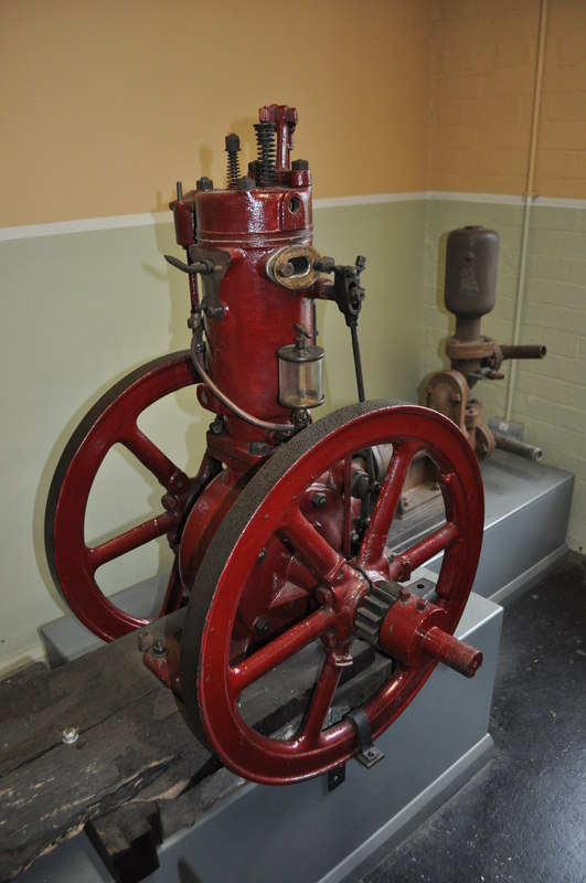 Fairbanks-Morse & Co Petrol Engine